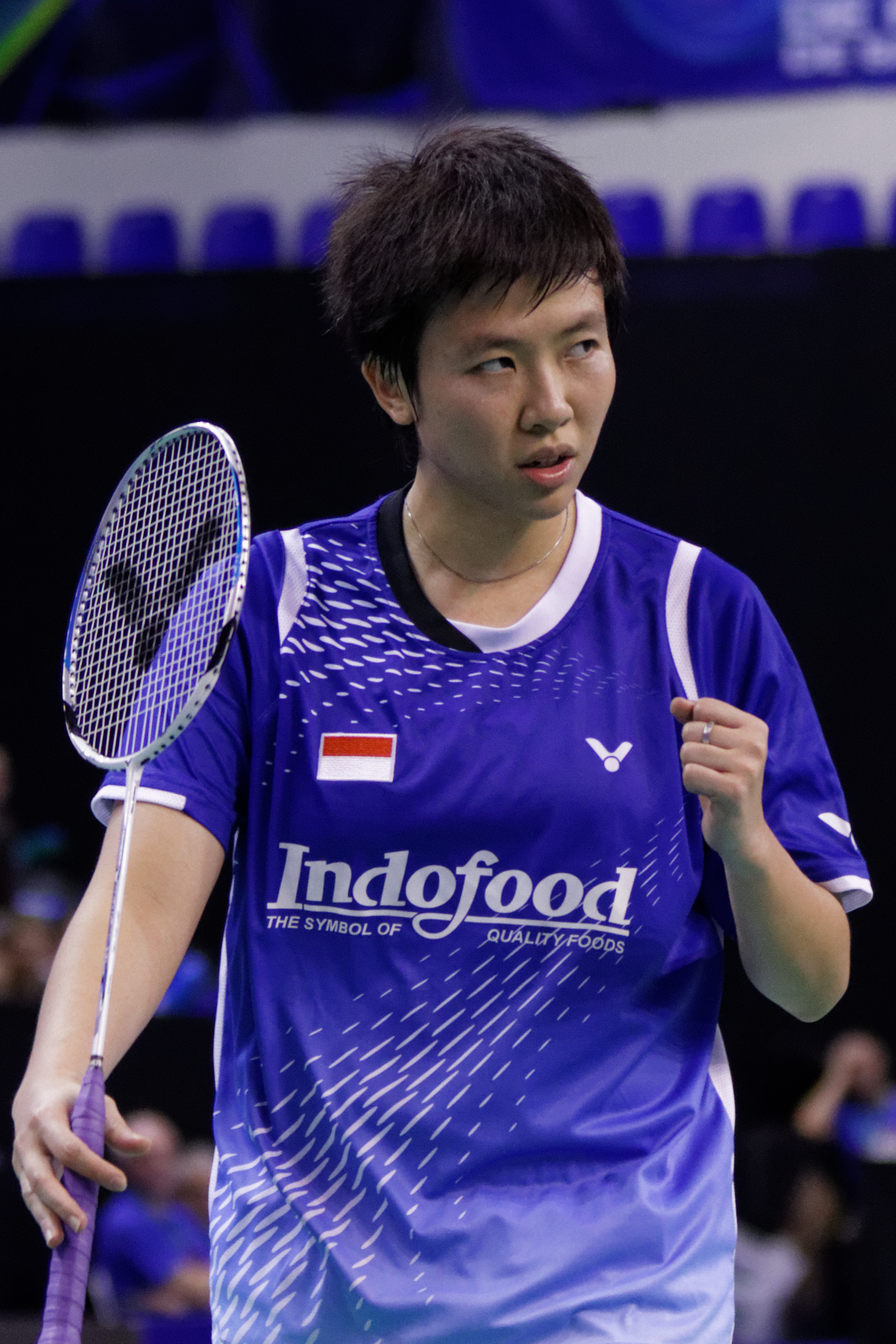 2013 French open. Mixed's doubles quarterfinal. Tontowi Ahmad - Liliyana Natsir vs Chris Adcock - Gabrielle White.